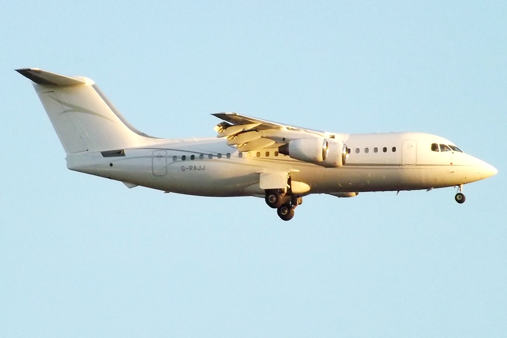 G-RAJJ BAe 146-200 Cello Aviation landing Glasgow